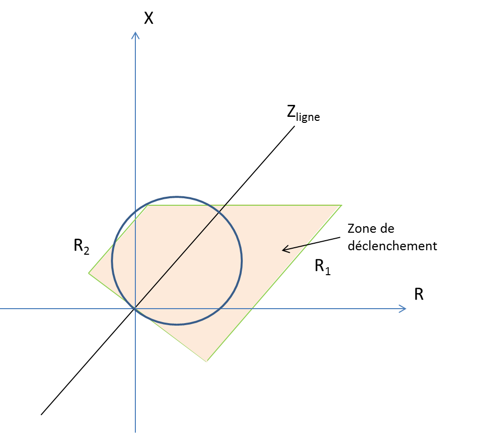 Diagram from a quadrilateral characteristic for distance protection